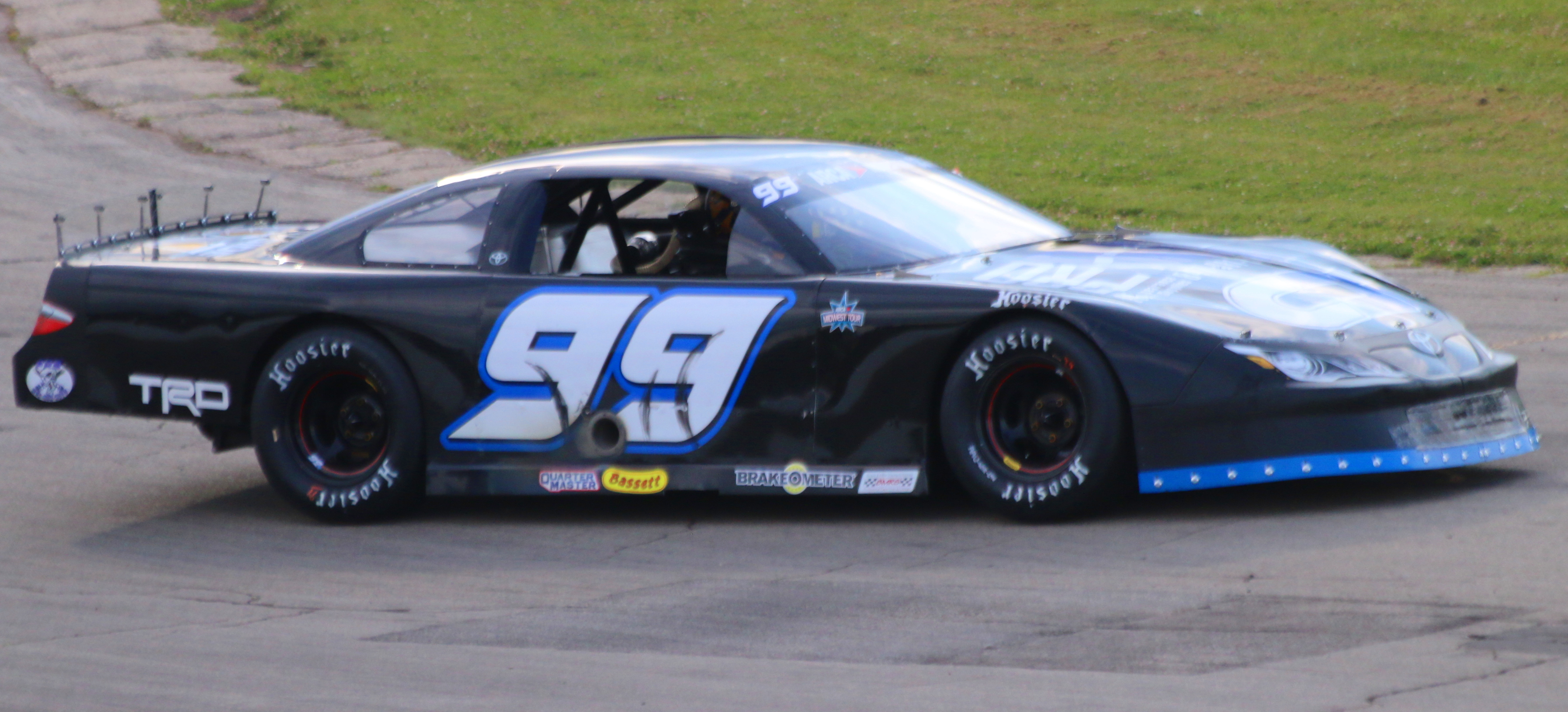 Travis Braden's ARCA Midwest Tour car at the Dixieland 250 race at Wisconsin International Raceway.